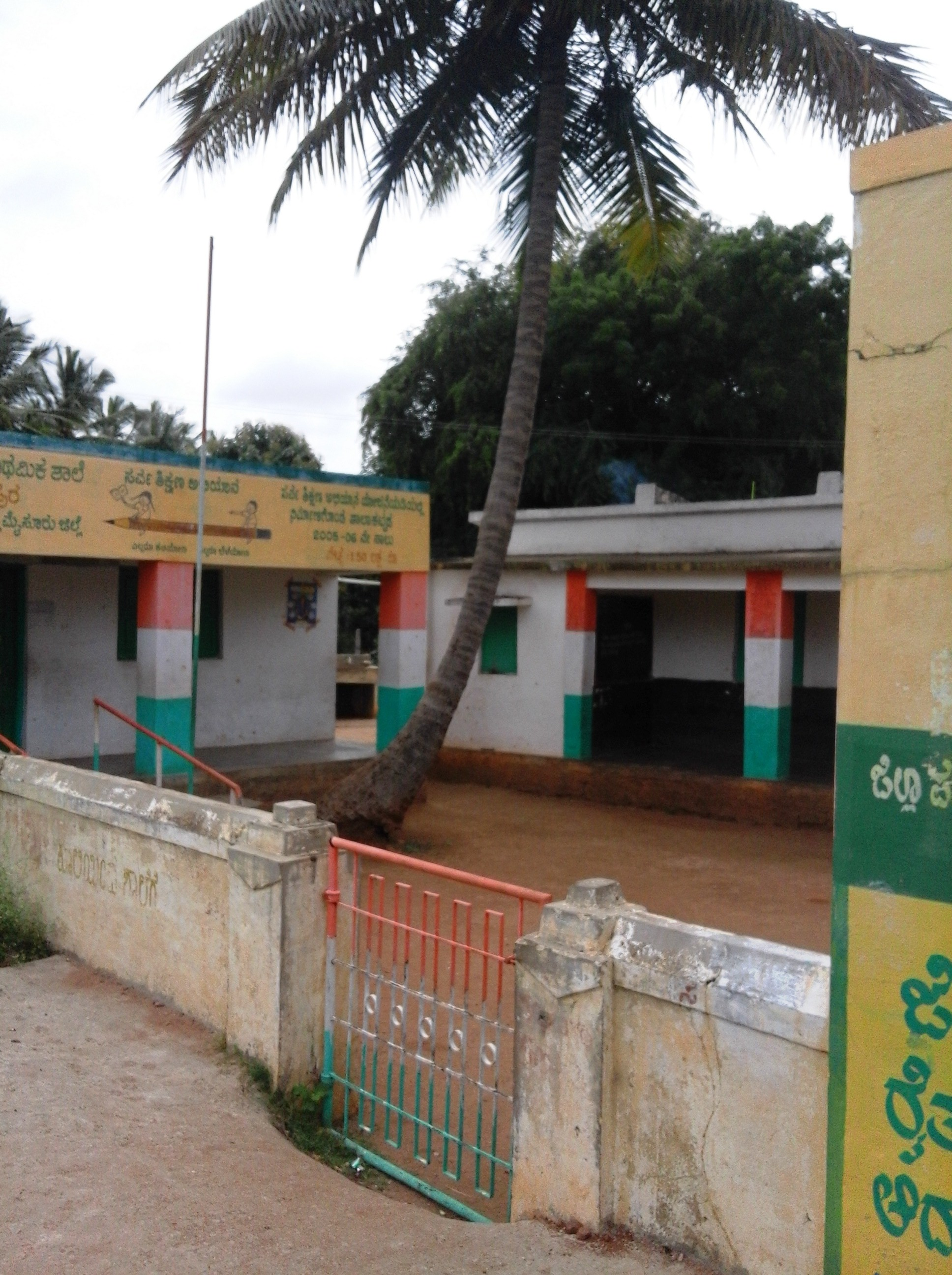 Mysore district, Karnataka state, India.